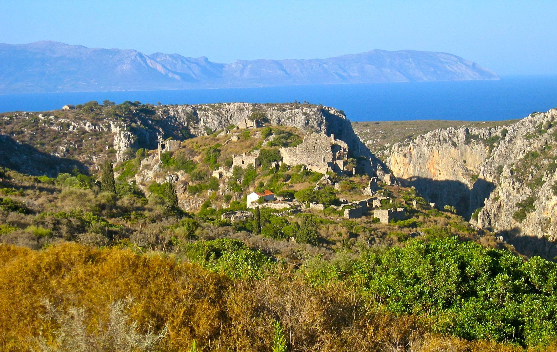 Paleochora, in Kythira Greece